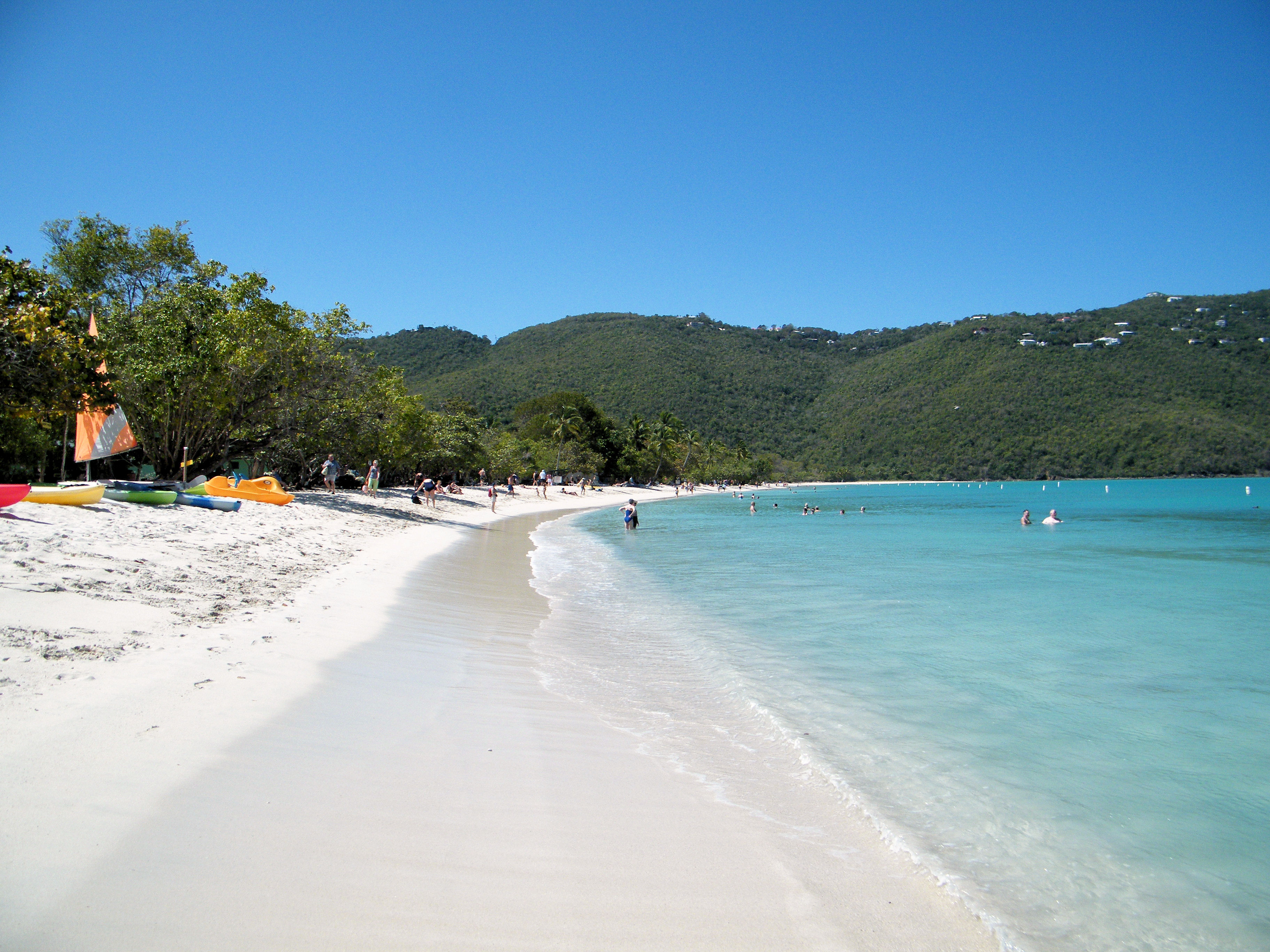 The beach at Magens Bay, Saint Thomas. The view is from the northern end of the beach, facing southwest. Photographed on March 30, 2009 by user Coolcaesar.